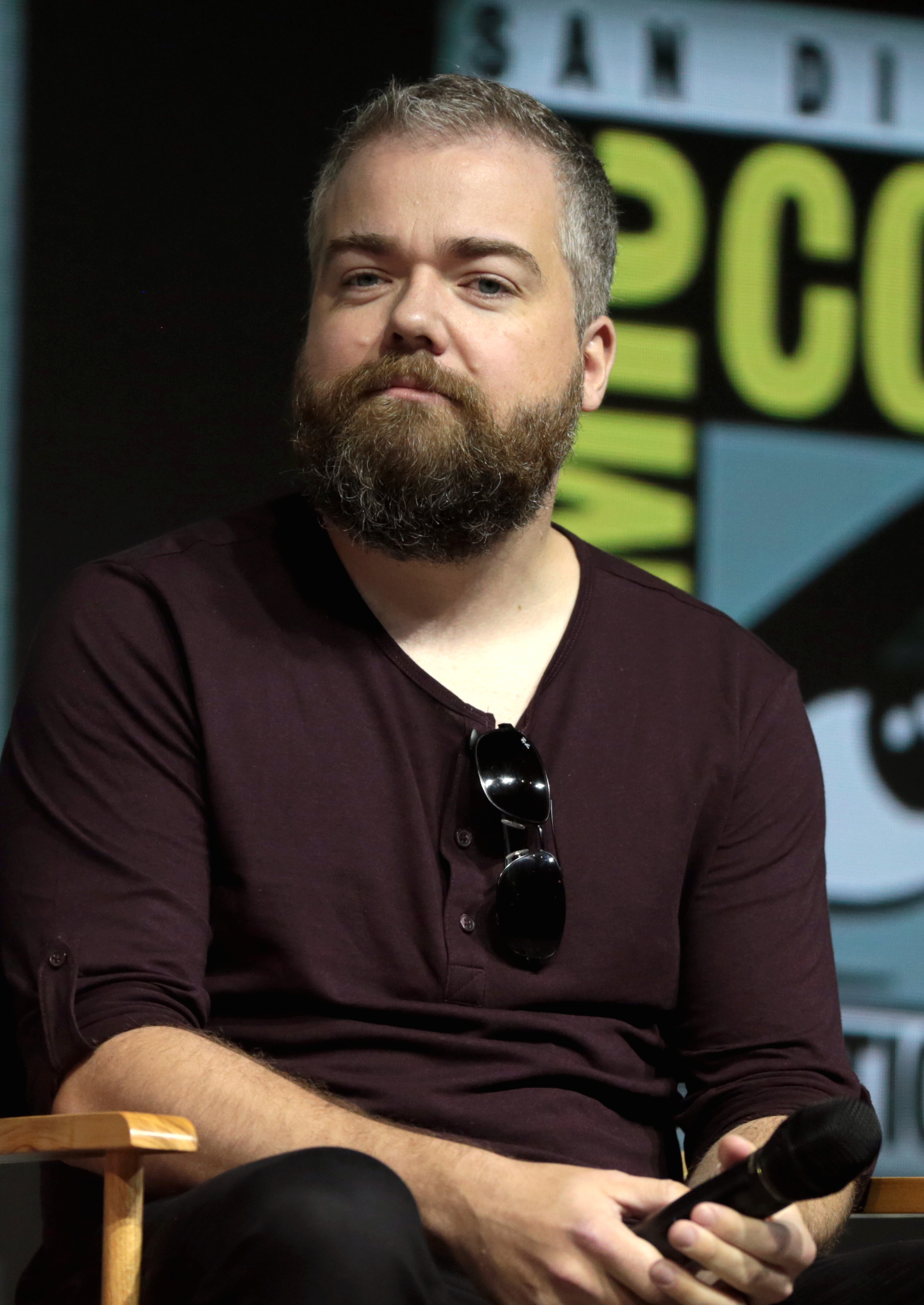 David F. Sandberg speaking at the 2018 San Diego Comic-Con International in San Diego, California.